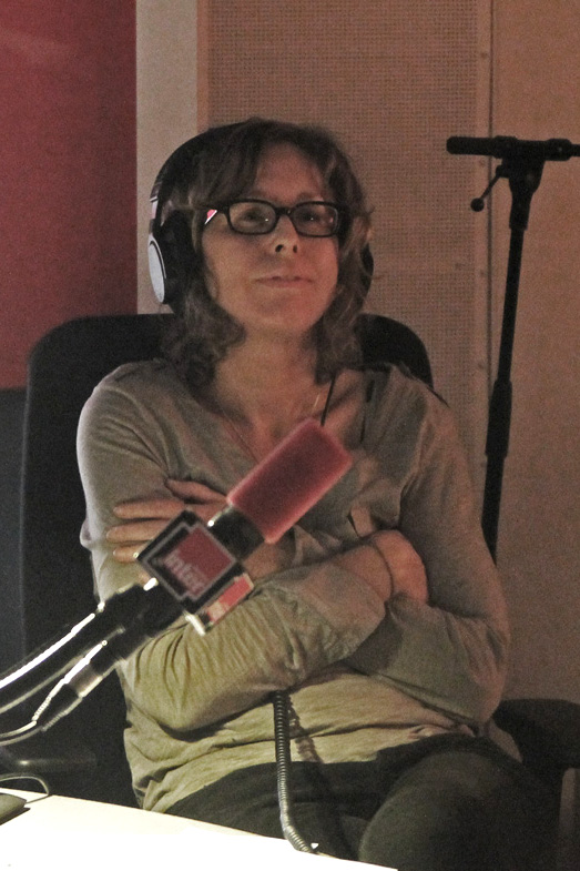 Pascale Clark during la Nuit Blanche on February 21, 2013 at France Inter.